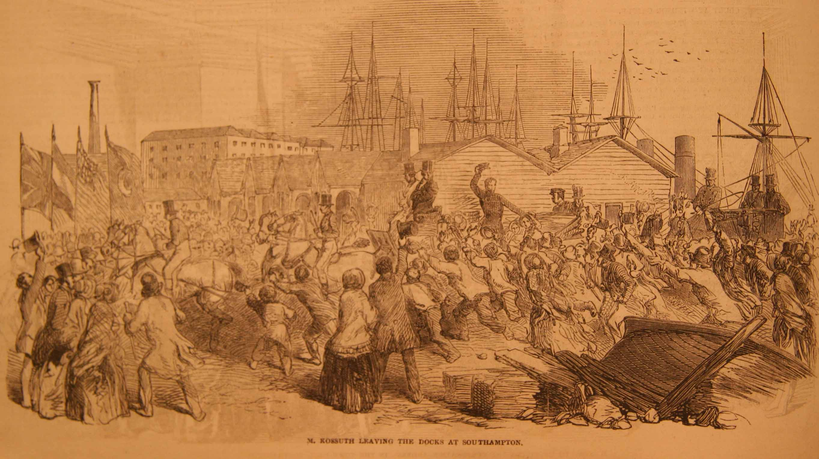 Lajos Kossuth Arrives at Southampton Docks, Drawing from the Illustrated London News, 1st November 1851